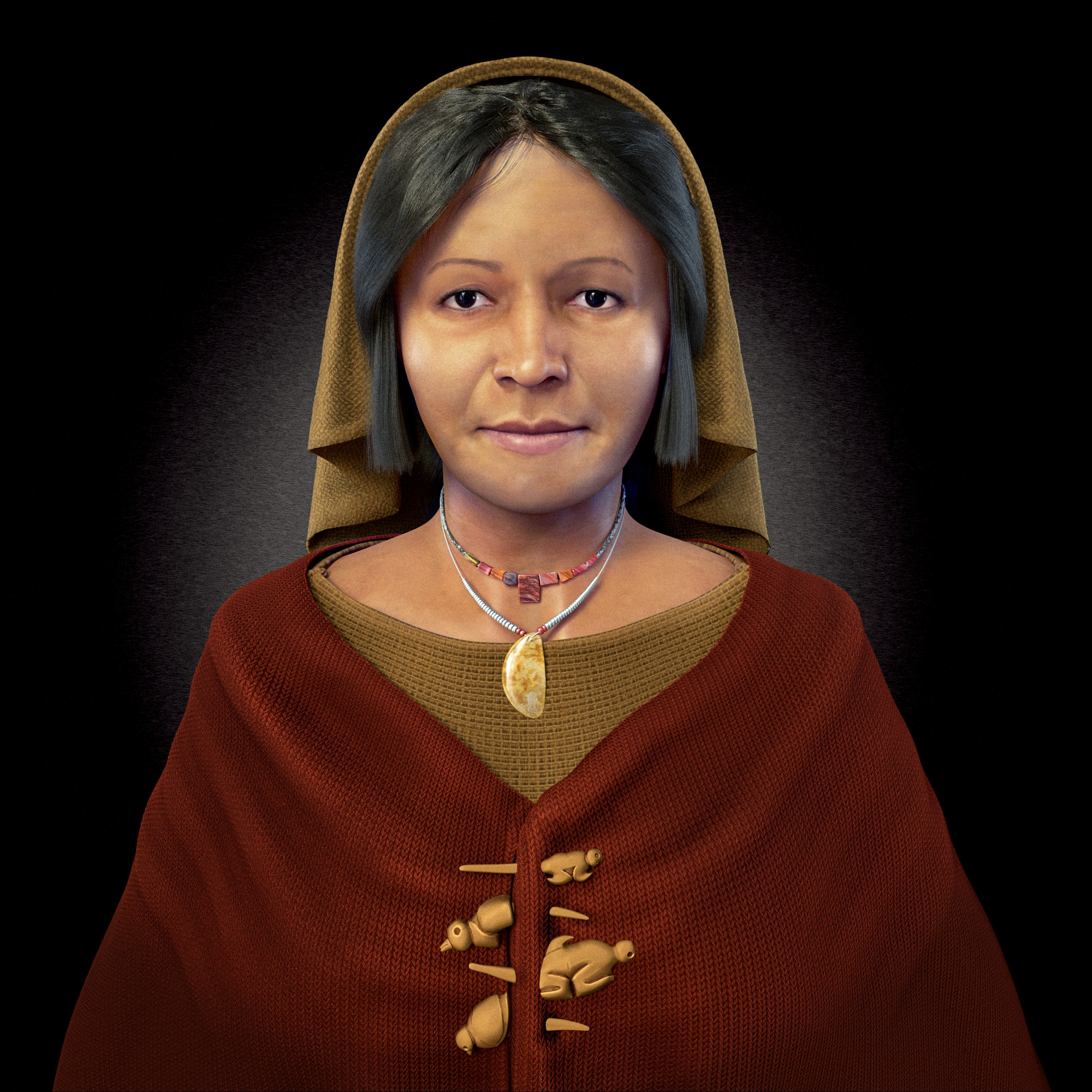 Forensic facial reconstruccion of the Lady of Four Tupus (Brooches)